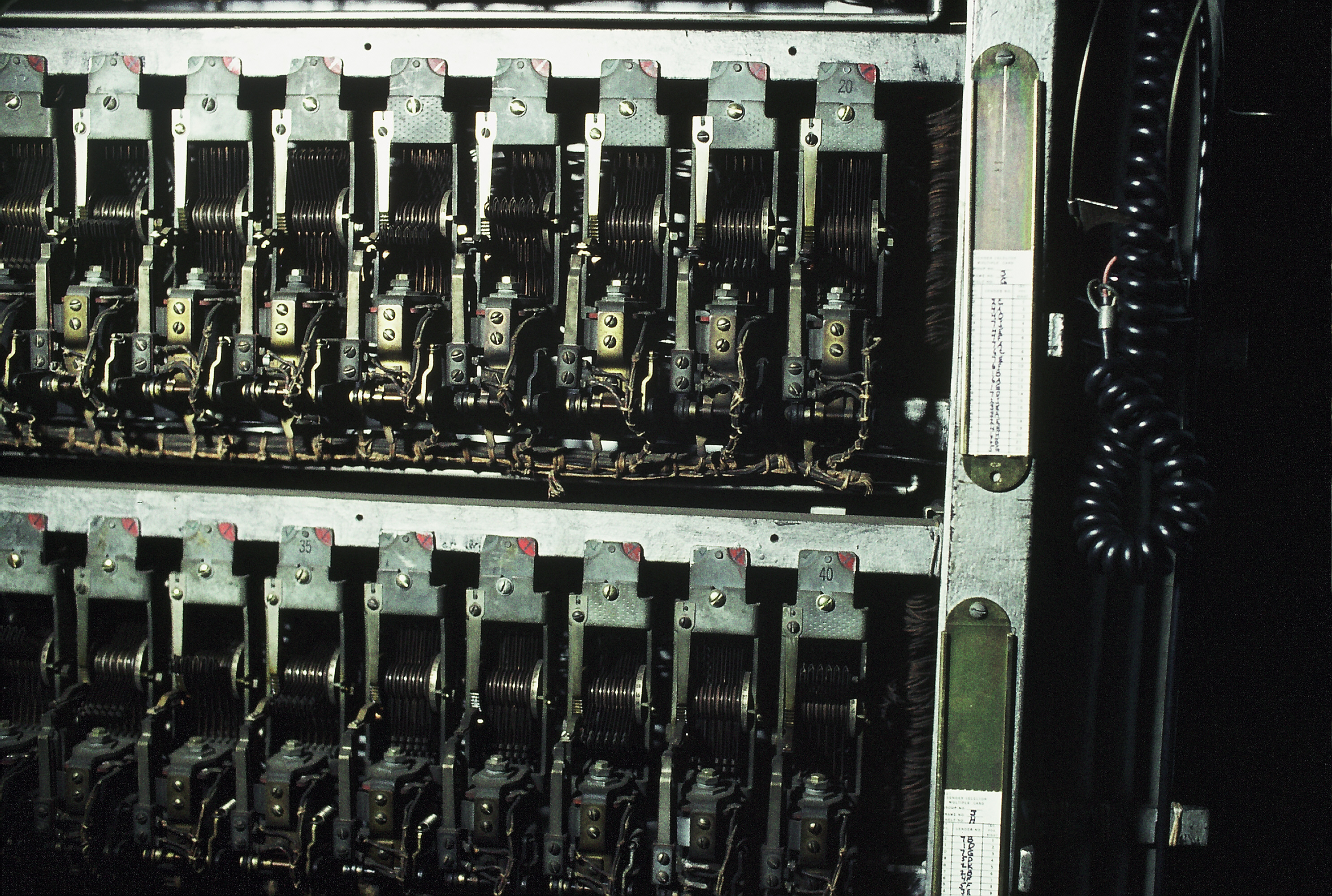 The Panel District Sender Selector Frame was used during call setup to connect an idle Sender to the District selector requesting. At call start the rotary switch would step around until an idle Sender was found. When this connection was established the caller would hear dialtone. As the caller dialed a number the sender would call in a Decoder to obtain routing information and start setting up the connection while the caller was still dialing. At the completion of call setup the Sender would 'advance' the District selector into 'talk' position. At this point the Sender is out of the call and the caller could hear the distant end. A CGO District Sender Selector could handle 22 Senders. Where as a BCO Sender Link Frame Selector could handle 100 Senders. During very high traffic it was possible for all senders in a given group to be busy. This caused the DSS switch to keep stepping round and round. If this continued too long other DSS switches did the same thing sometimes causing the cat to chase its tail and eventually over heating the DSS switch usually resulting in a DSS switch stopping on a busy Sender. This caused more problems. Stuck Senders. Less Senders available and so on... Not a pretty sight.